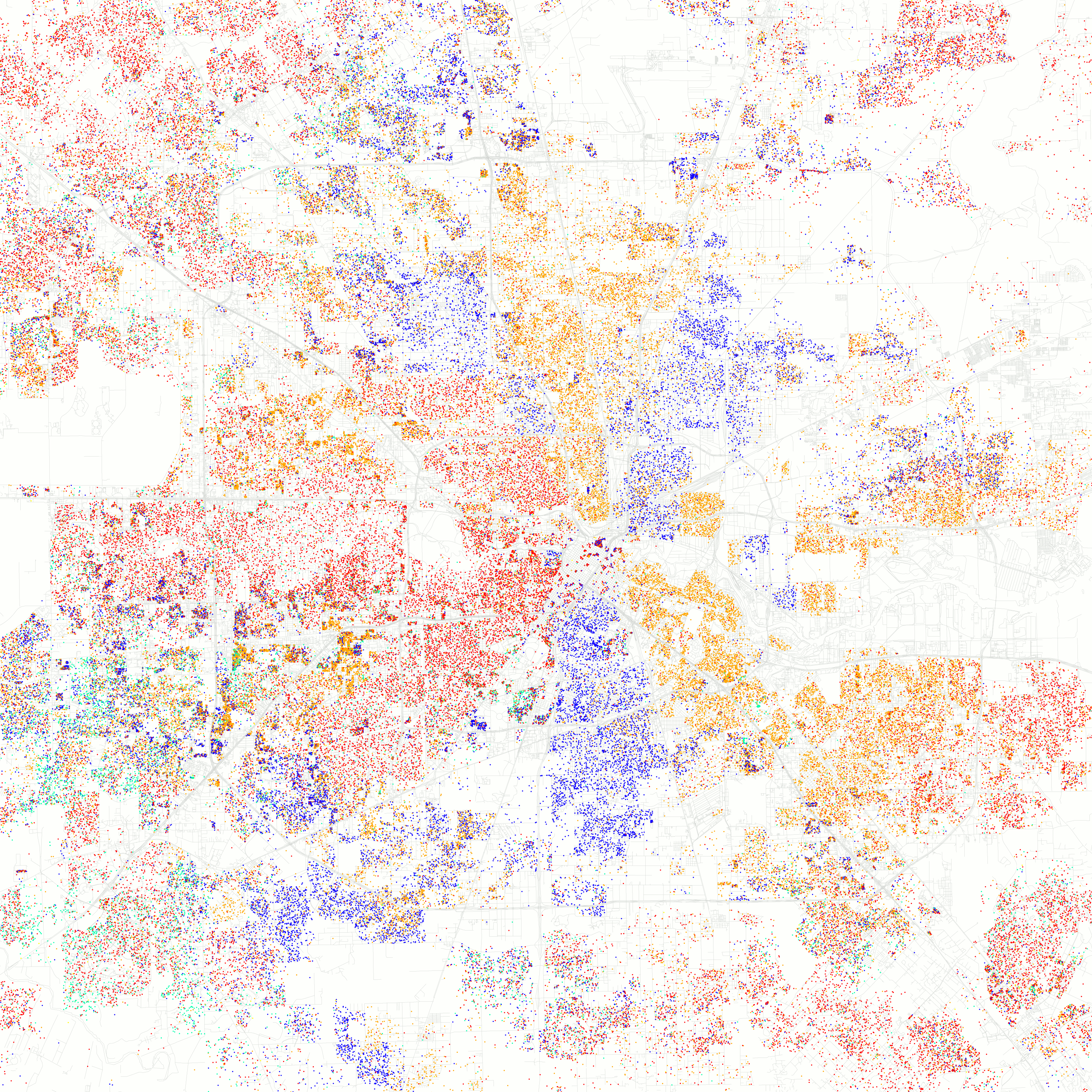 Maps of racial and ethnic divisions in US cities, inspired by Bill Rankin's map of Chicago, updated for Census 2010. Red is White, Blue is Black, Green is Asian, Orange is Hispanic, Yellow is Other, and each dot is 25 residents. Data from Census 2010. Base map © OpenStreetMap, CC-BY-SA